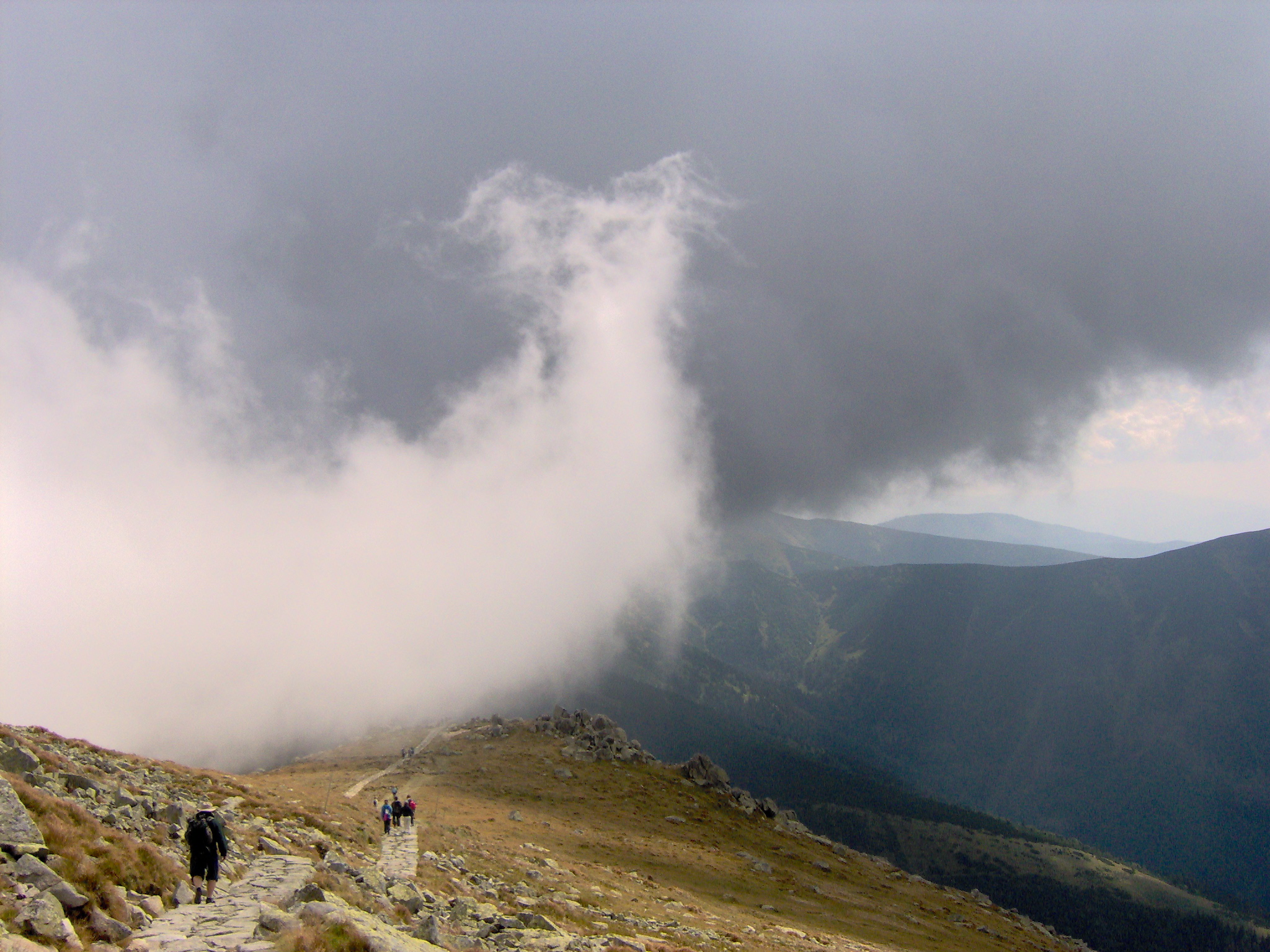 Turistic road Cesta Hrdinov SNP in Lower Tatras, between Chopok and Ďumbier hills.